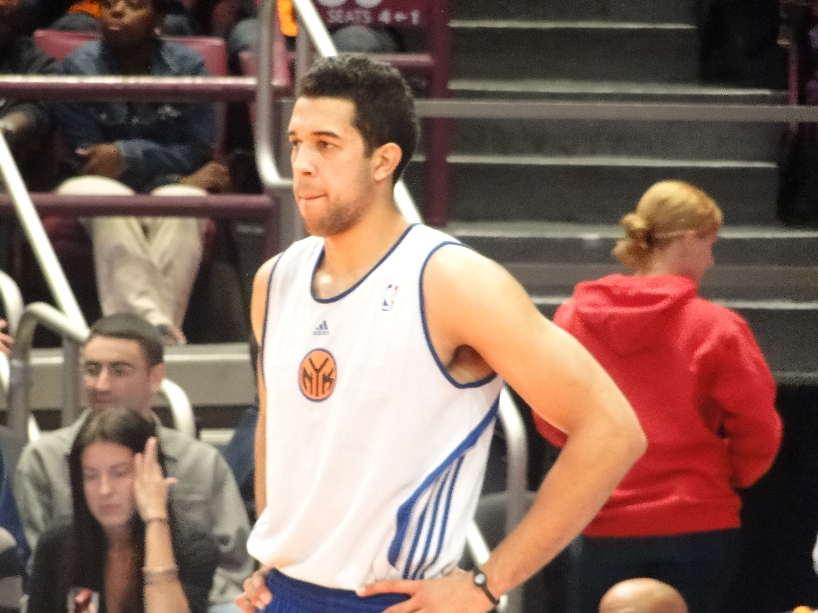 Landry Fields of the New York Knicks